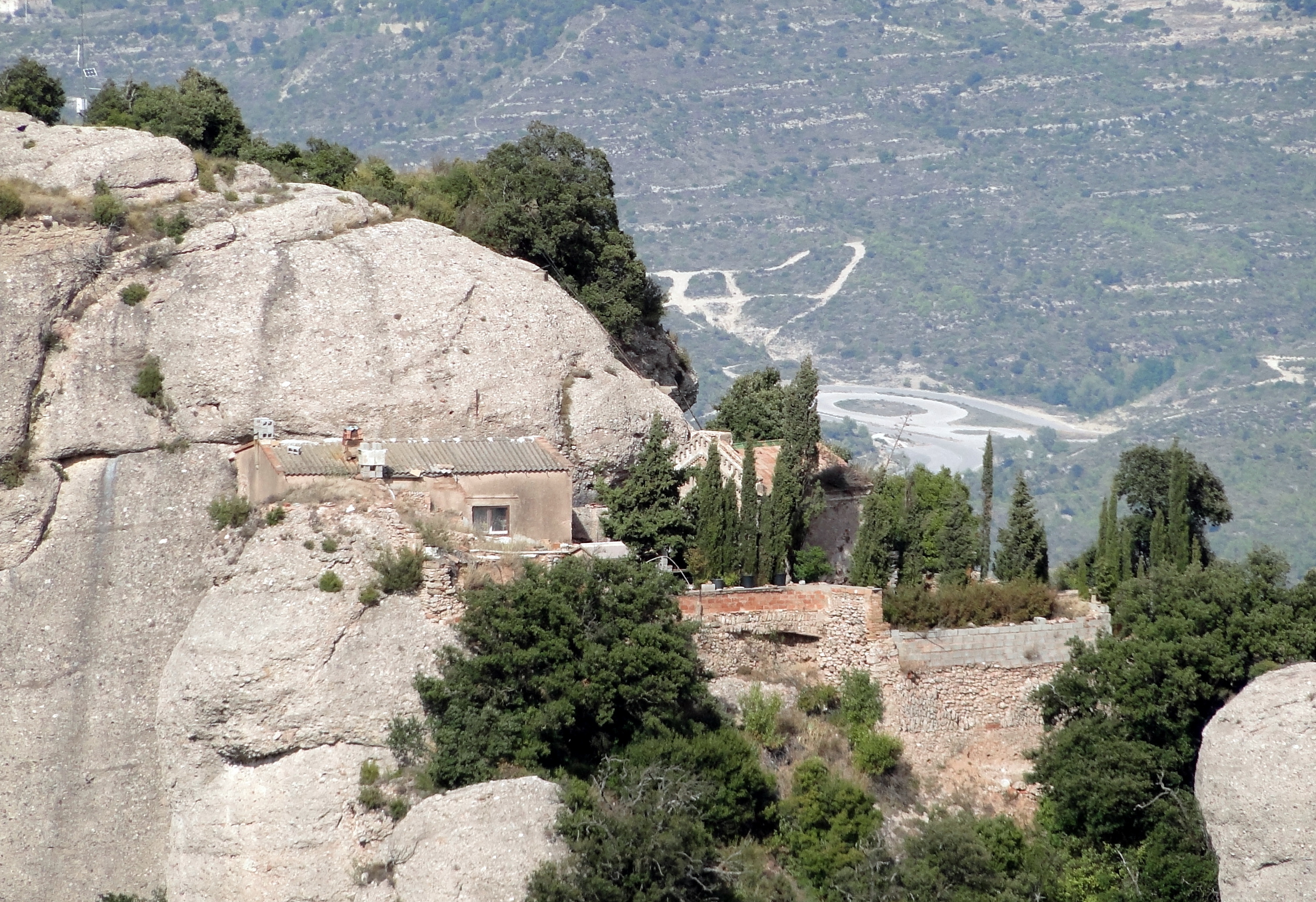 Hermitage of Sant Dimes, Montserrat, Catalonia, Spain